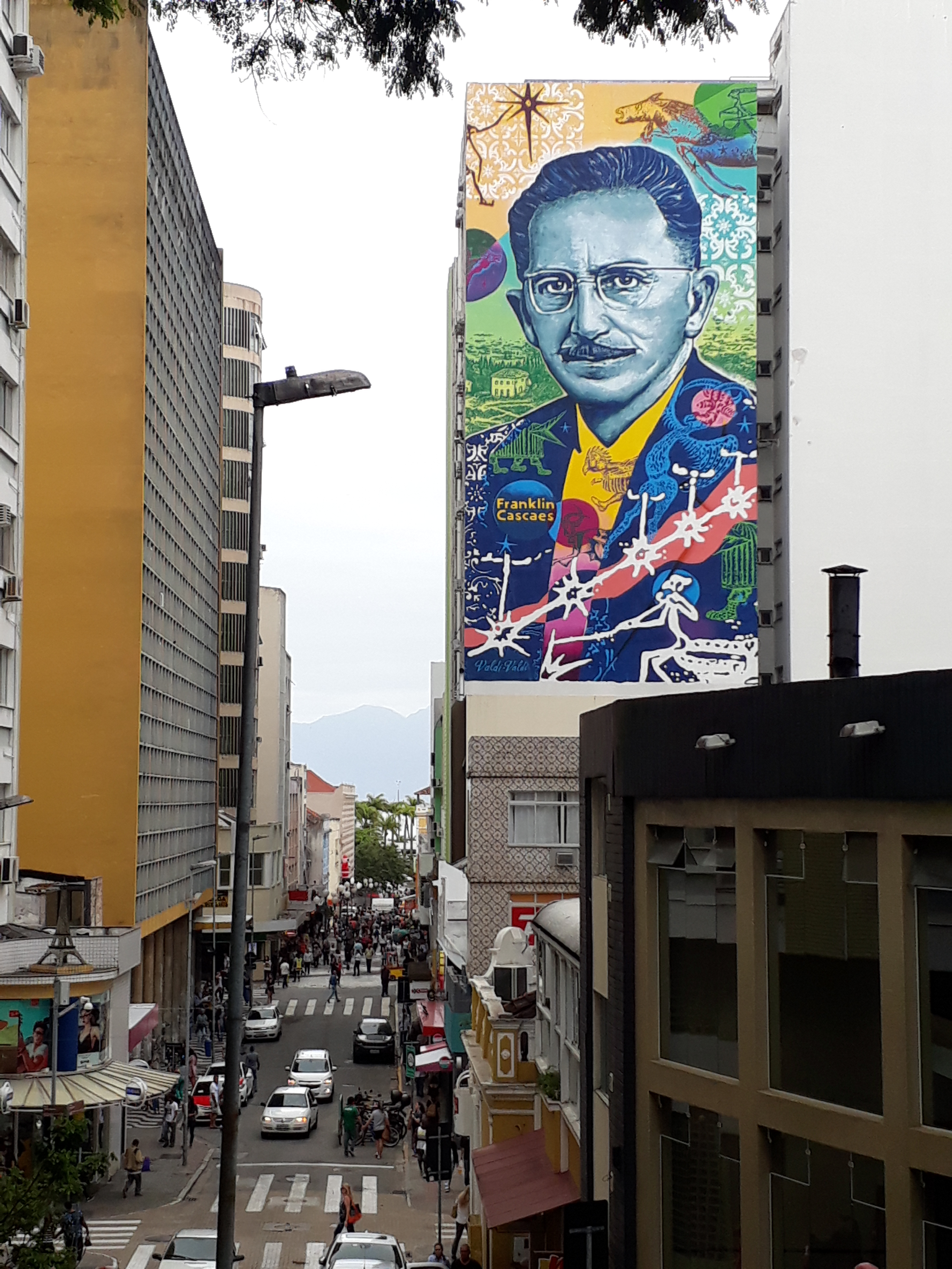 Street art honoring Franklin Cascaes, at the brazilian city of Florianópolis, made in 2017 by the street artist Thiago Valdí.